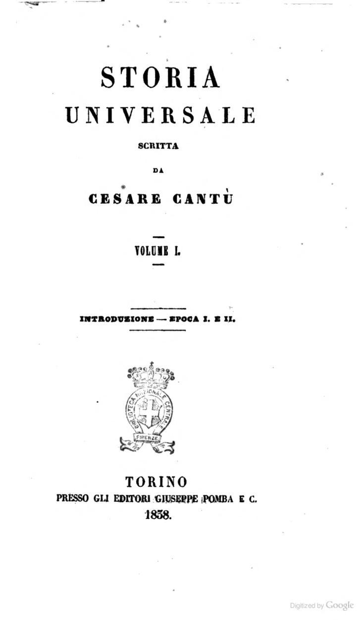 Cesare Cantù, Universal History, vol. I, by Giuseppe Pomba e C. editors, Turin 1838, frontispiece